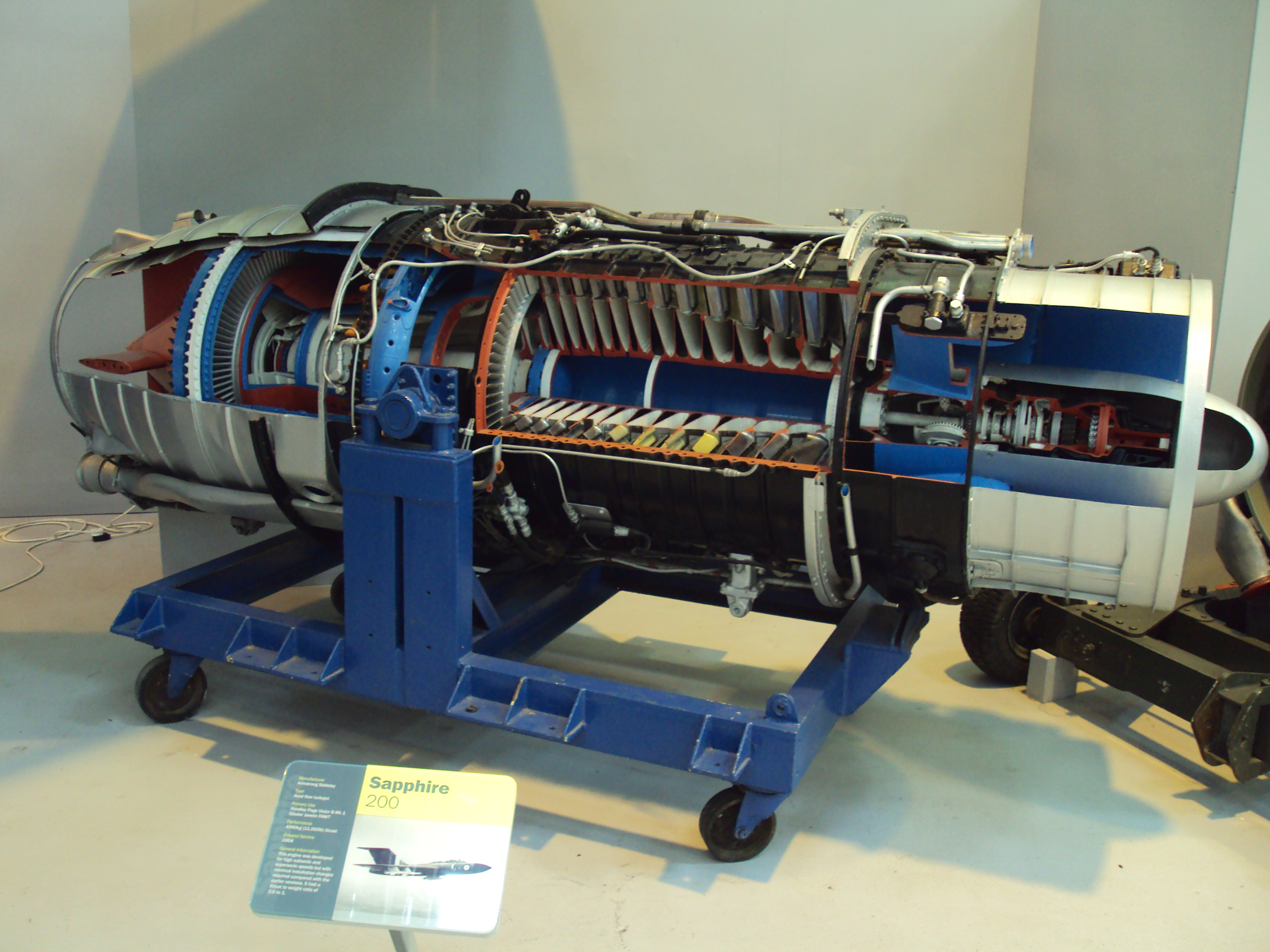 Armstrong Siddeley Sapphire 200 turbojet aircraft engine. Photo taken at the RAF Museum Cosford, Shropshire, England.